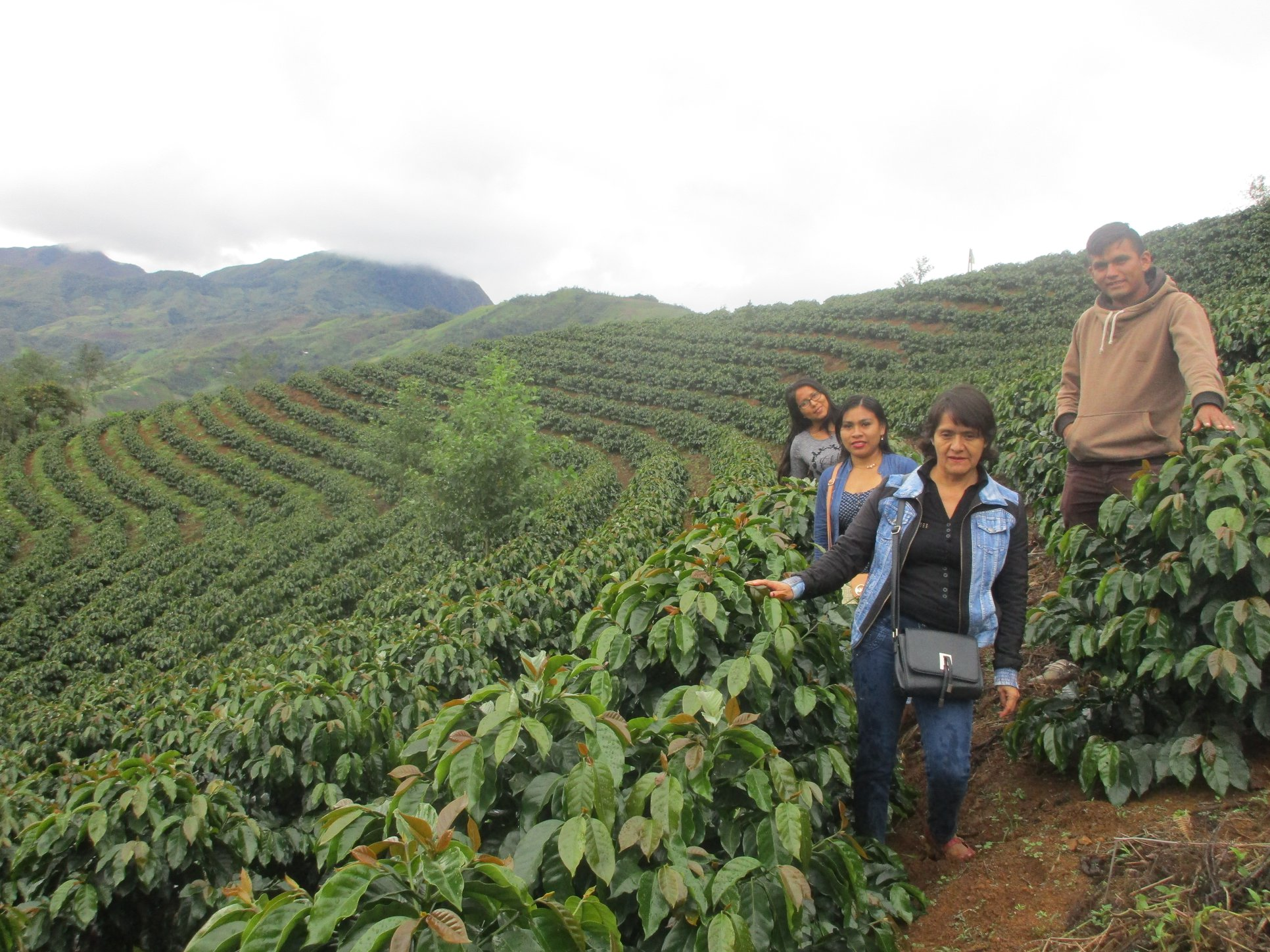 These images are of own authorship, and any attempt of usurpation of third parties or by interested entities I accept the rules of the right of intellectual property